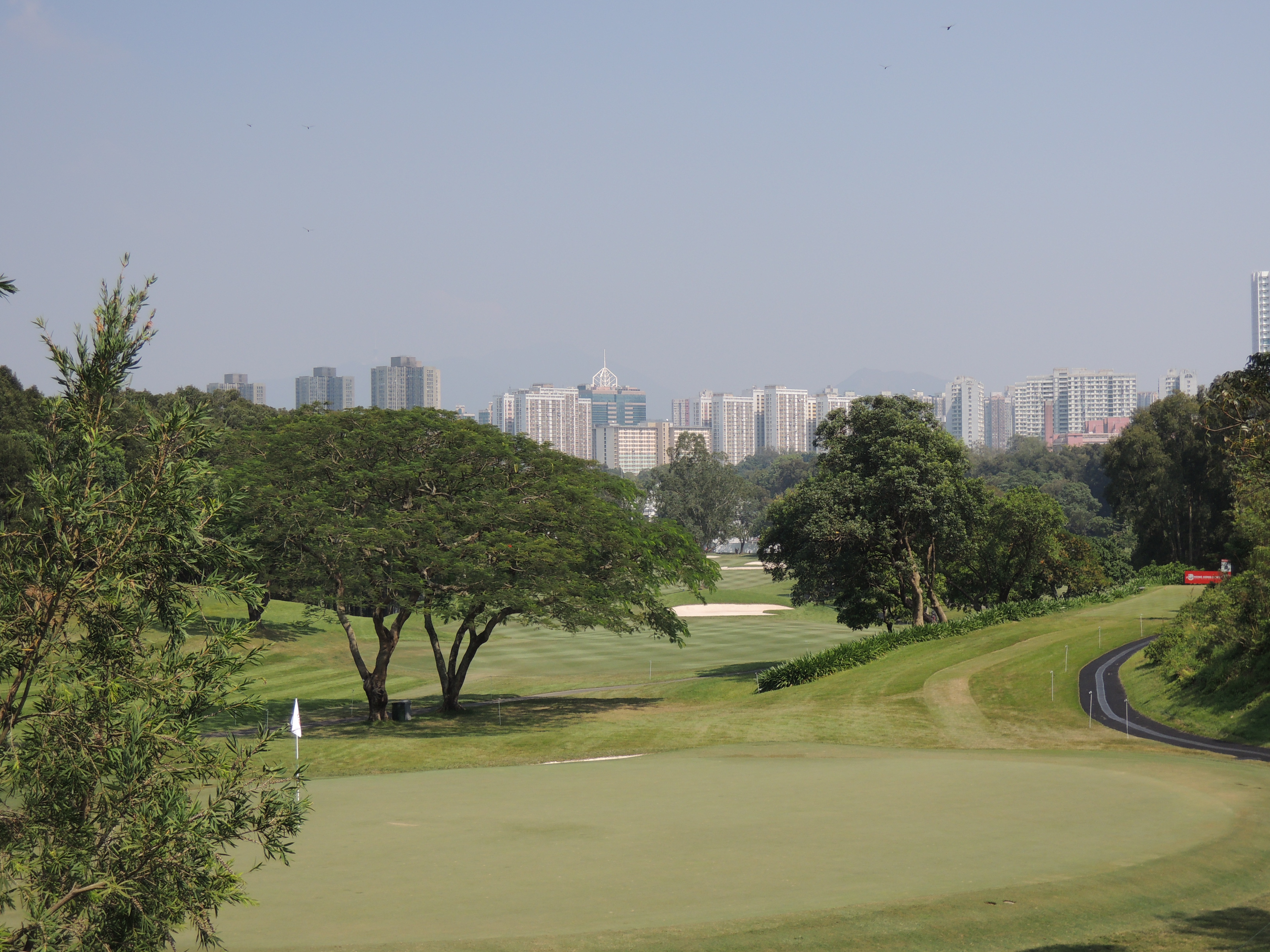 Hole 2